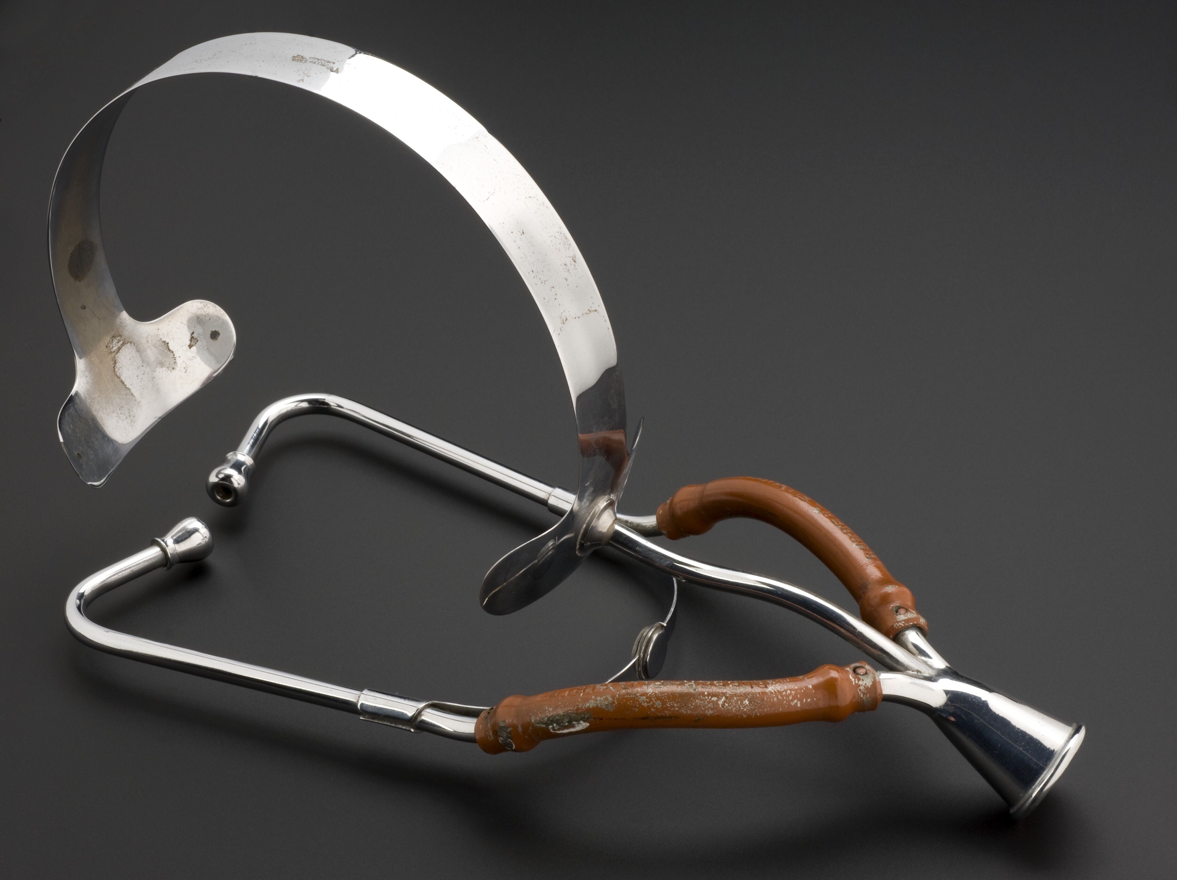 V. Mueller and Company in America made this binaural stethoscope. It is designed with a head rest. It was intended for use by obstetricians. The stethoscope freed the specialist’s hands to move the foetus to detect different sounds. Listening to the internal sounds of the body is known as ‘auscultation’. Auscultation of the foetal heart beat was first described by F. I. Mayor of Geneva in 1818. During the 20th century, foetal heart monitoring became a routine method of checking the condition of the baby before and during birth. maker: Mueller, V. and Company Place made: Chicago, Cook county, Illinois, United States Medical Photographic Library Keywords: Stethoscopes; stethoscope; Obstetrics